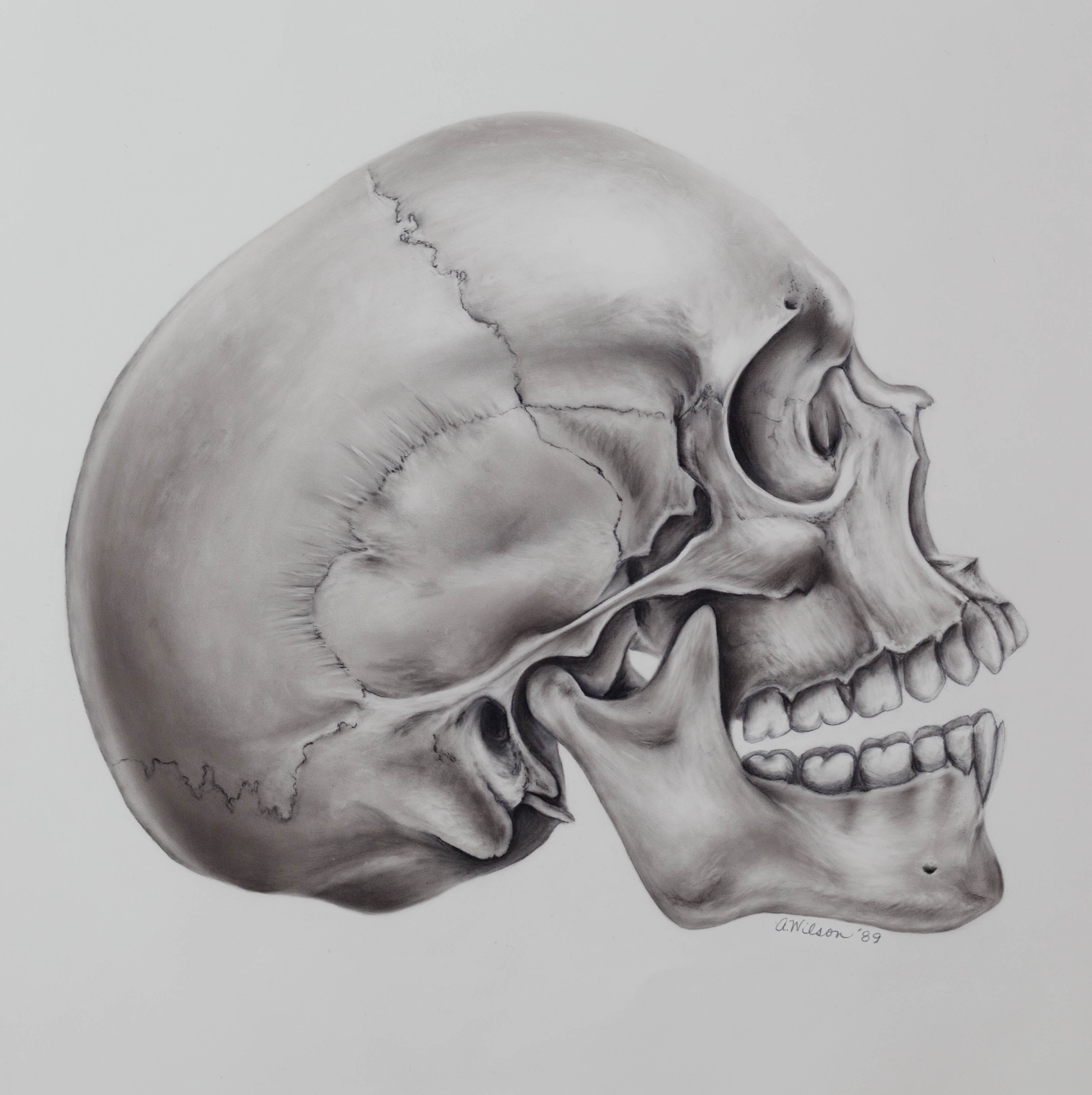 This skull was drawn by Anjie (Wilson) Trusty, a graduate of the medical illustration program at The Ohio State University using carbon dust.